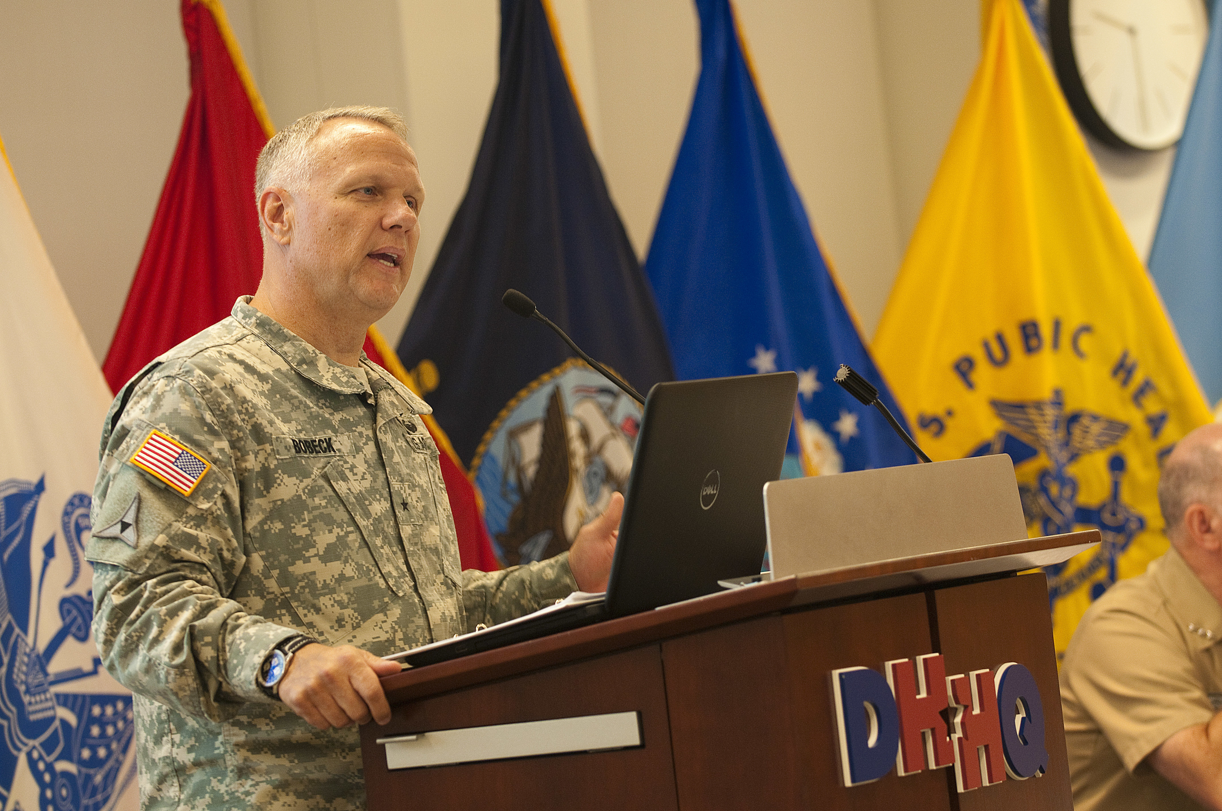 Army Brig. Gen. Michael Bobeck, special assistant to the director of the Army National Guard, speaks about the mental health challenges facing the Army Guard during a Psychological Health and Resilience Summit, Sept. 18, 2014, in Falls Church, Va. The Defense Centers for Excellence for Psychological Health and Traumatic Brain Injury spearheaded the summit, which allowed leader from across the Department Of Defense to discuss the way ahead for addressing psychological health issues and resilience across the force. (Army National Guard photo by Staff Sgt. Darron Salzer, National Guard Bureau/Released)